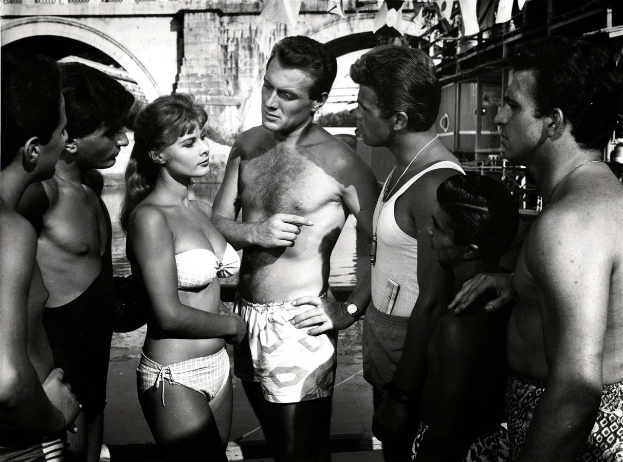 "Poveri ma belli" by Dino Risi, 1956, film shot